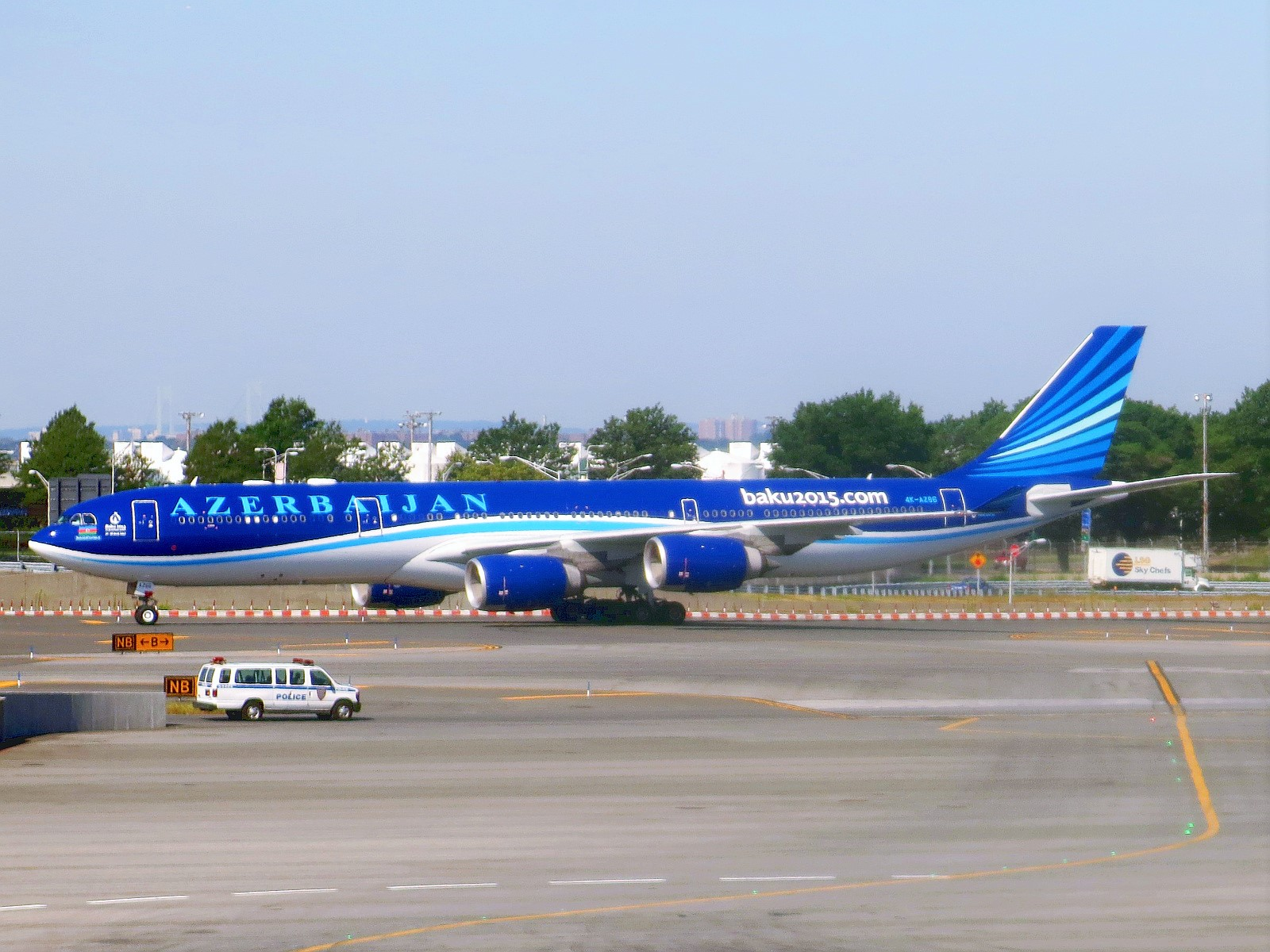 An Azerbaijan Airlines A340-500 is taxiing past Terminal 8 to Terminal 1 at JFK Airport after arriving from Baku. On the aft fuselage and on the nose aft of the cockpit windows are advertisements and logos for the 2015 European Games which were held in Baku.